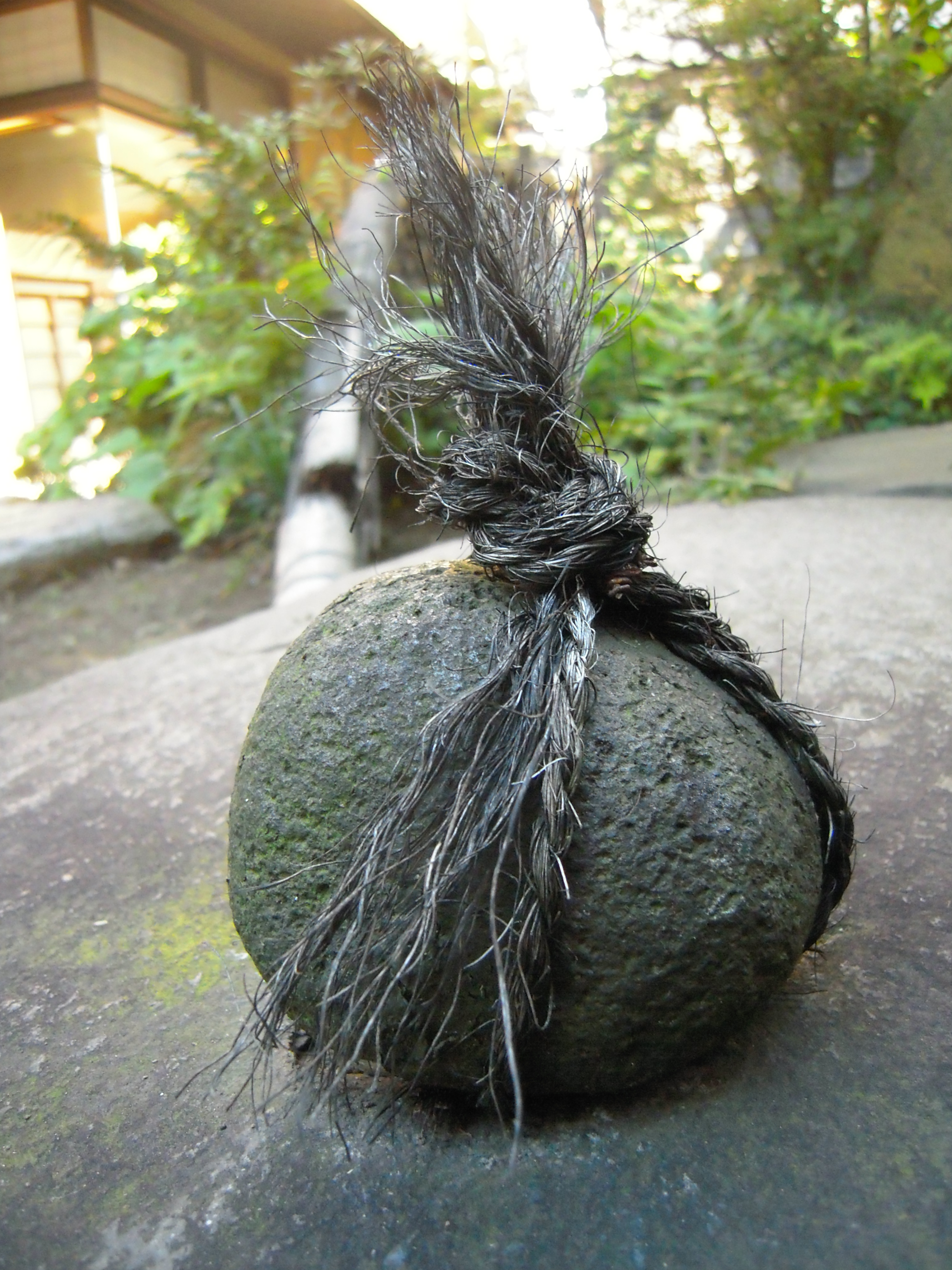 Tomeishi ("halt stone") to keep people off the prohibited area, in Obuse, Nagano, Japan